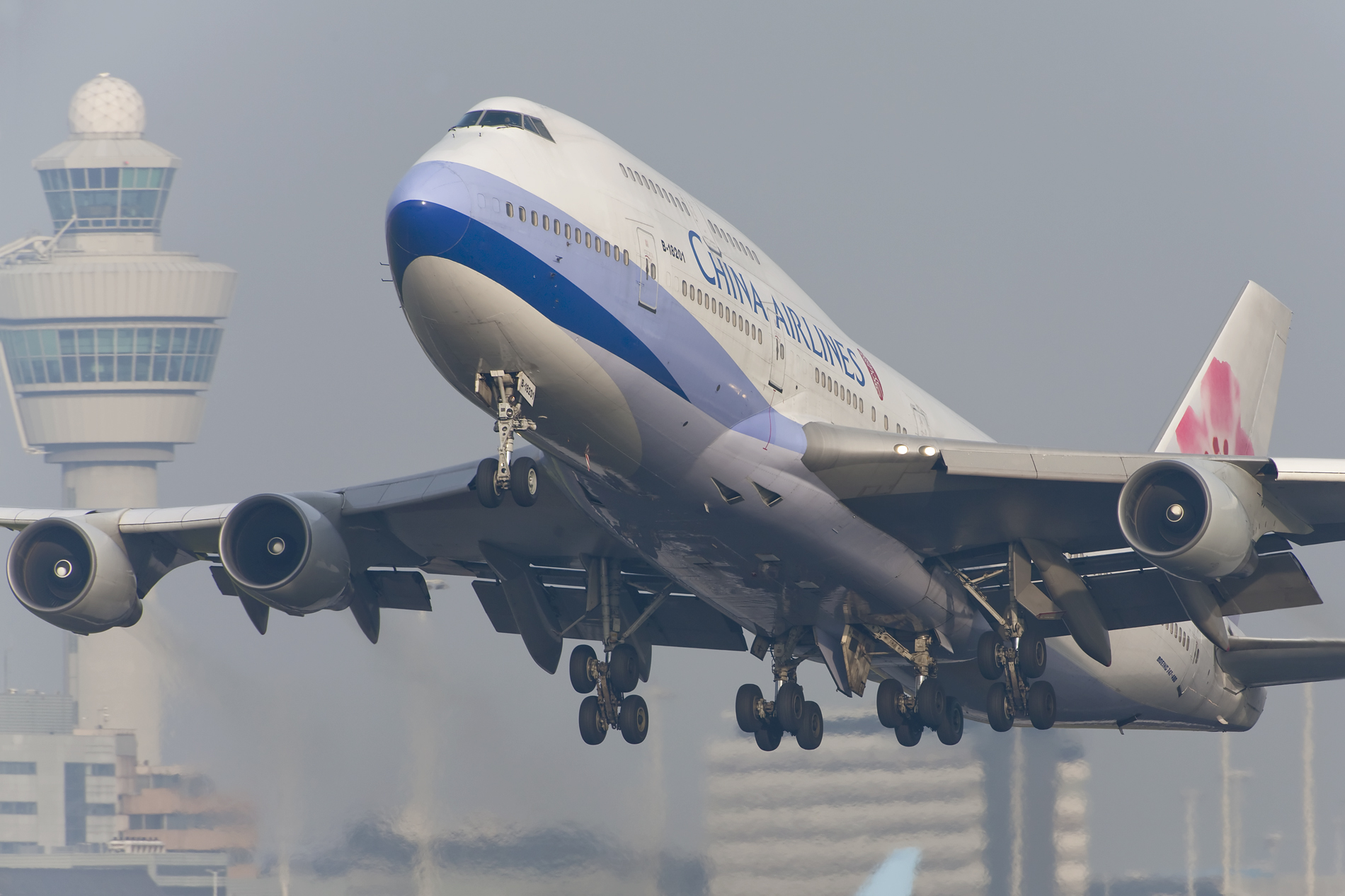 B-18201 B747-400 China Airlines